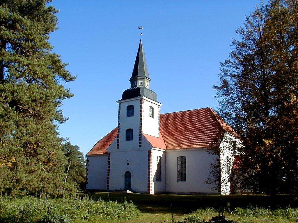 Liepupe Evangelical Lutheran Church near JelgavkrastiLatviešu: Liepupes evaņģēliski luteriskā baznīca